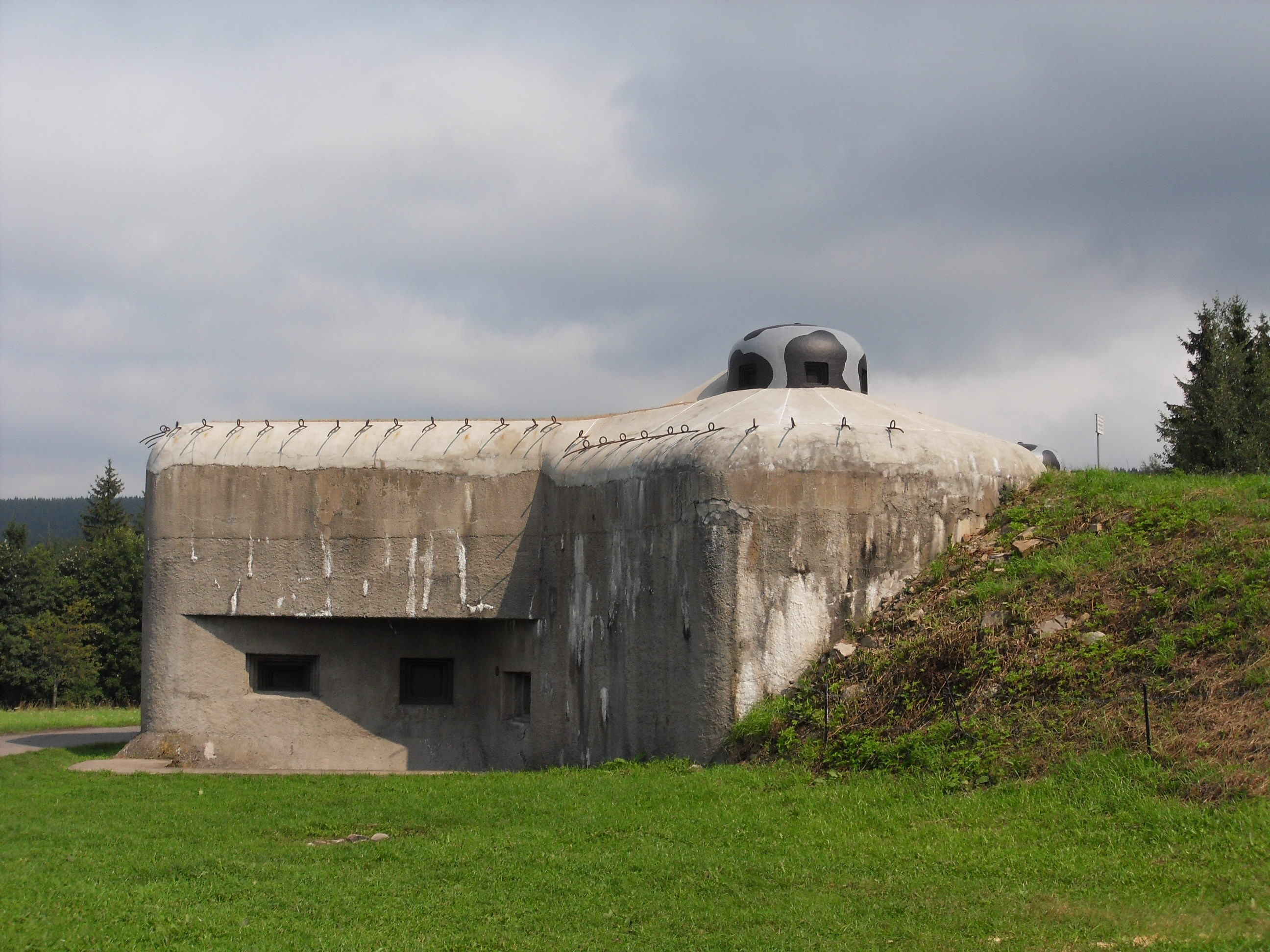 R-S 74 Na holém infantry casemate, Rychnov nad Kněžnou District, Czech Republic